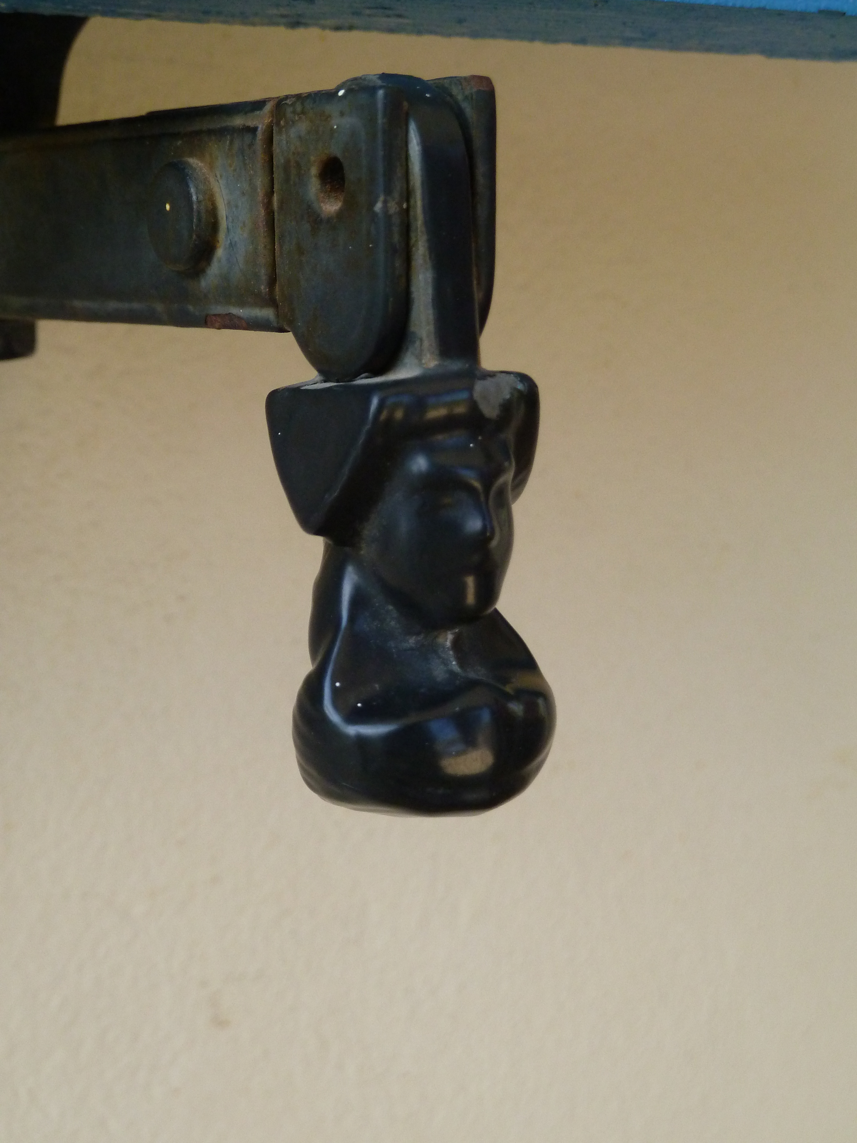 Nitsanim Palace